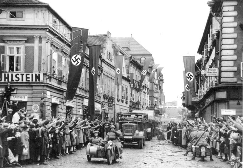 Einheits-Diesel truck